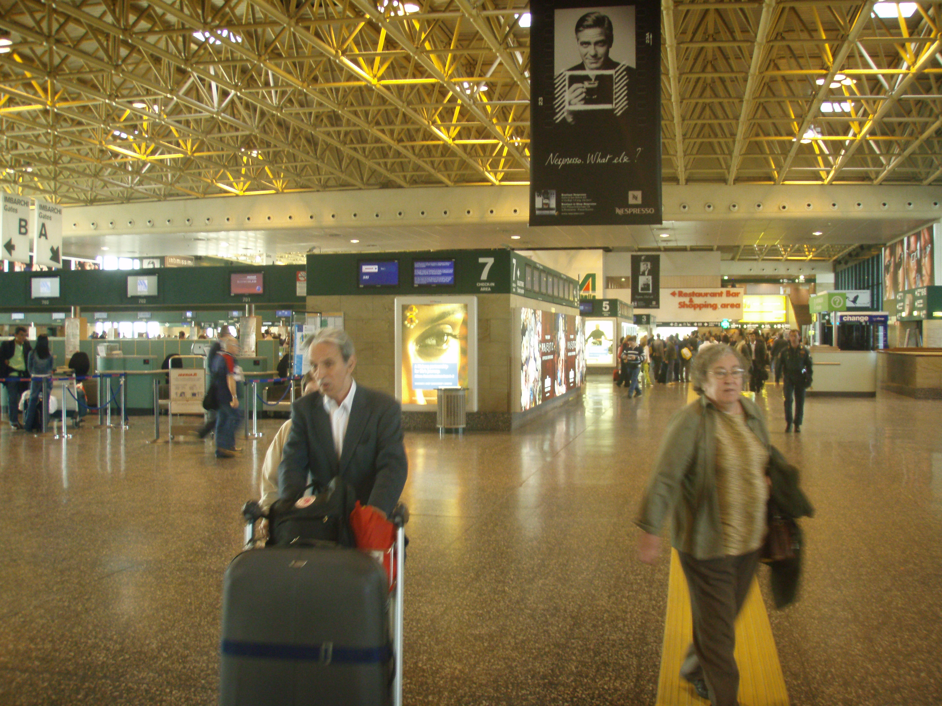 A terminal at Malpensa International Airport